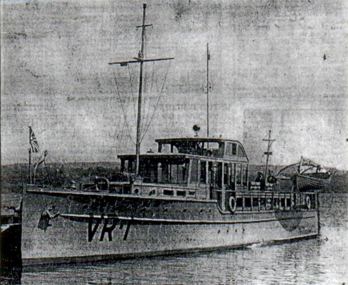 Haidee was a luxury cabin cruiser that was donated to the RCNR by E.H. Watt of Toronto. Haidee was a tender to HMCS Hunter and used as a training vessel on the Great Lakes during WW II.